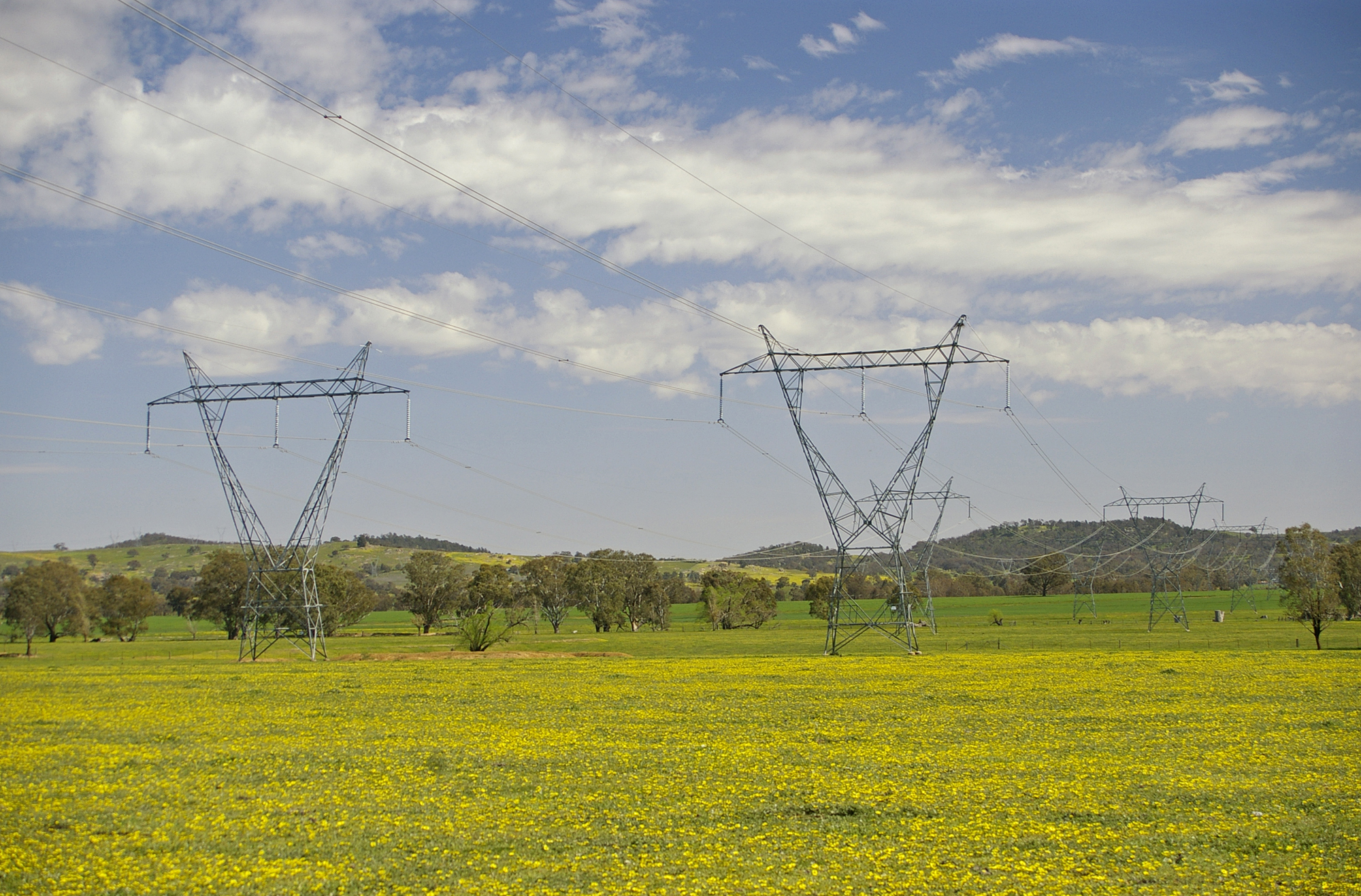 Electricity pylons and drought affected paddocks full of Capeweed (Arctotheca calendula) in Rowan, New South Wales.